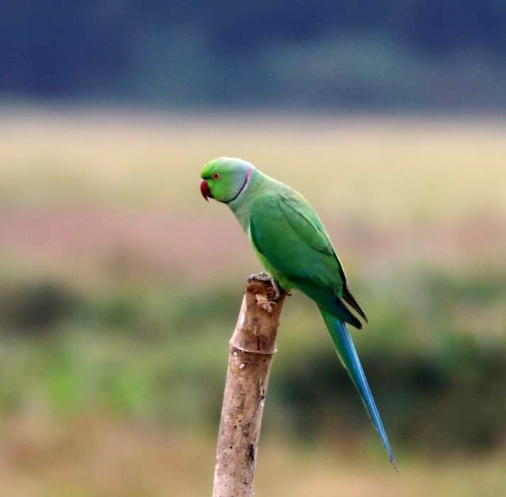 rose ringed parakeet,Psittacula krameri, from koottanad, Palakkad Kerala